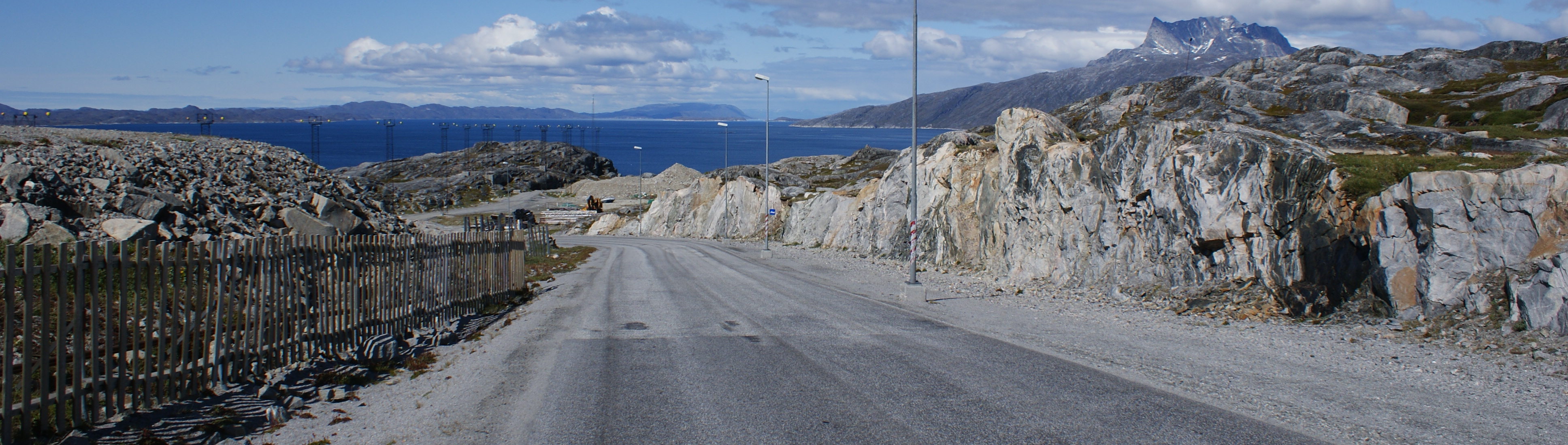 Nuuk Airport (GOH), Greenland. The northern endpoint of the runway.